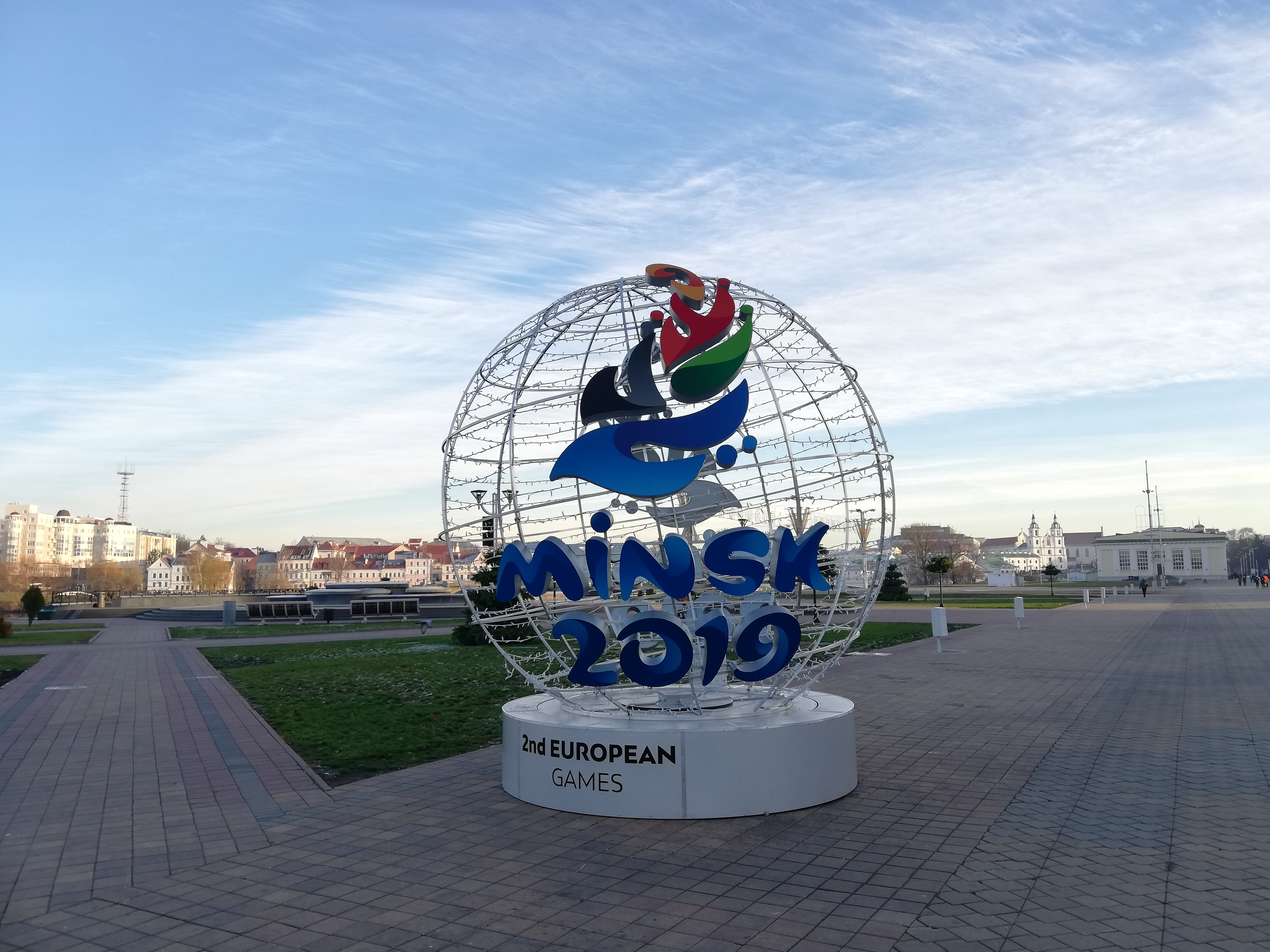 Sign, installed before European games - 2019